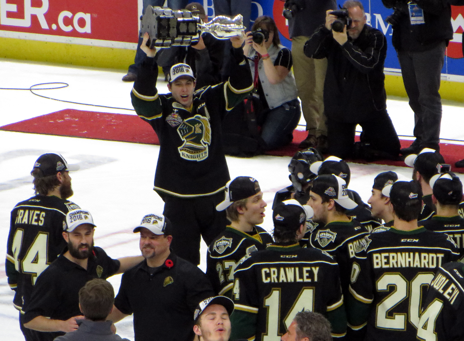 Mitchell Marner, alternate Captain of the London Knights, celebrates with the Memorial Cup trophy after winning the 2016 Memorial Cup tournament.